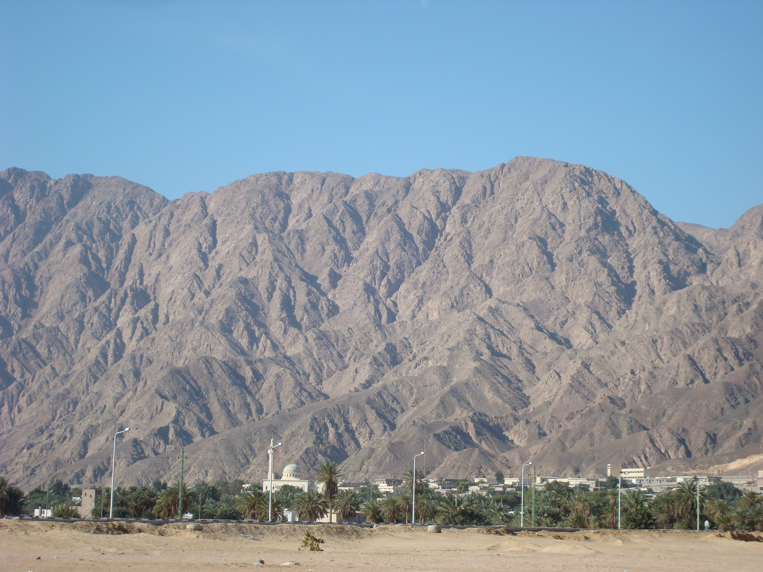 Egypt,South Sinai,Nuwayba